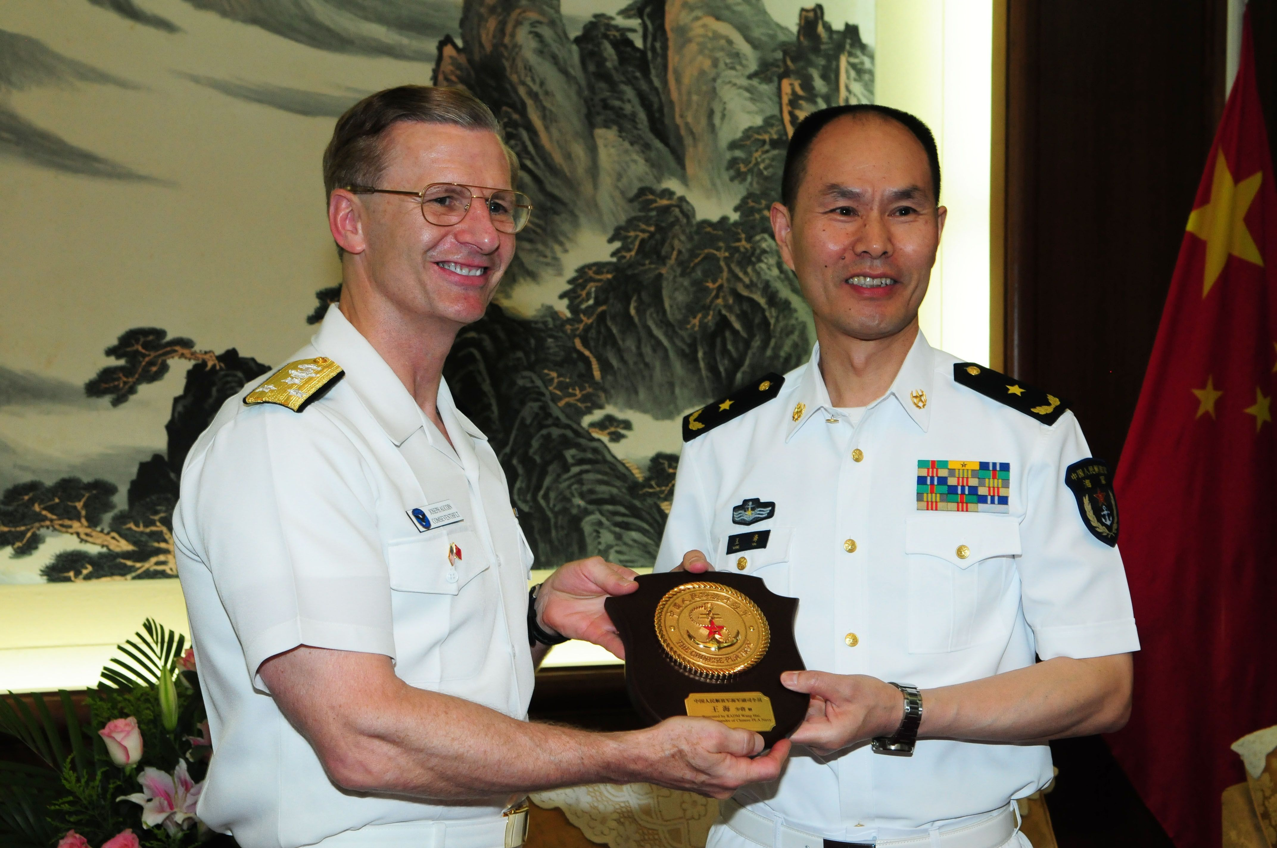 SHANGHAI (May 6, 2016) Commander, U.S. 7th Fleet, Vice Adm. Joseph Aucoin, receives a welcome plaque from Rear Adm. Wang Hai, deputy commander of the Chinese People's Liberation Army Navy (PLA(N)), at an office call hosted by military personnel from PLA(N) at Shanghai Naval Garrison Headquarters. The U.S. 7th Fleet flagship, USS Blue Ridge (LCC 19), is currently on patrol in the Indo-Asia Pacific to build partnerships for the security and stability of the region.